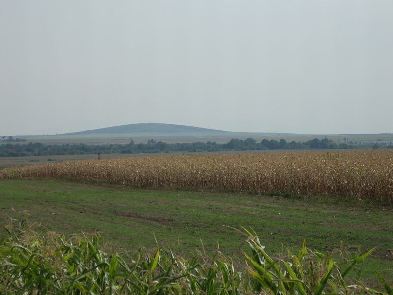 the Șumigu/Sümeg hill in the Banat